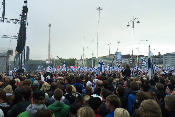 2011 IIHF World Championship gold medal celebrations in Helsinki.